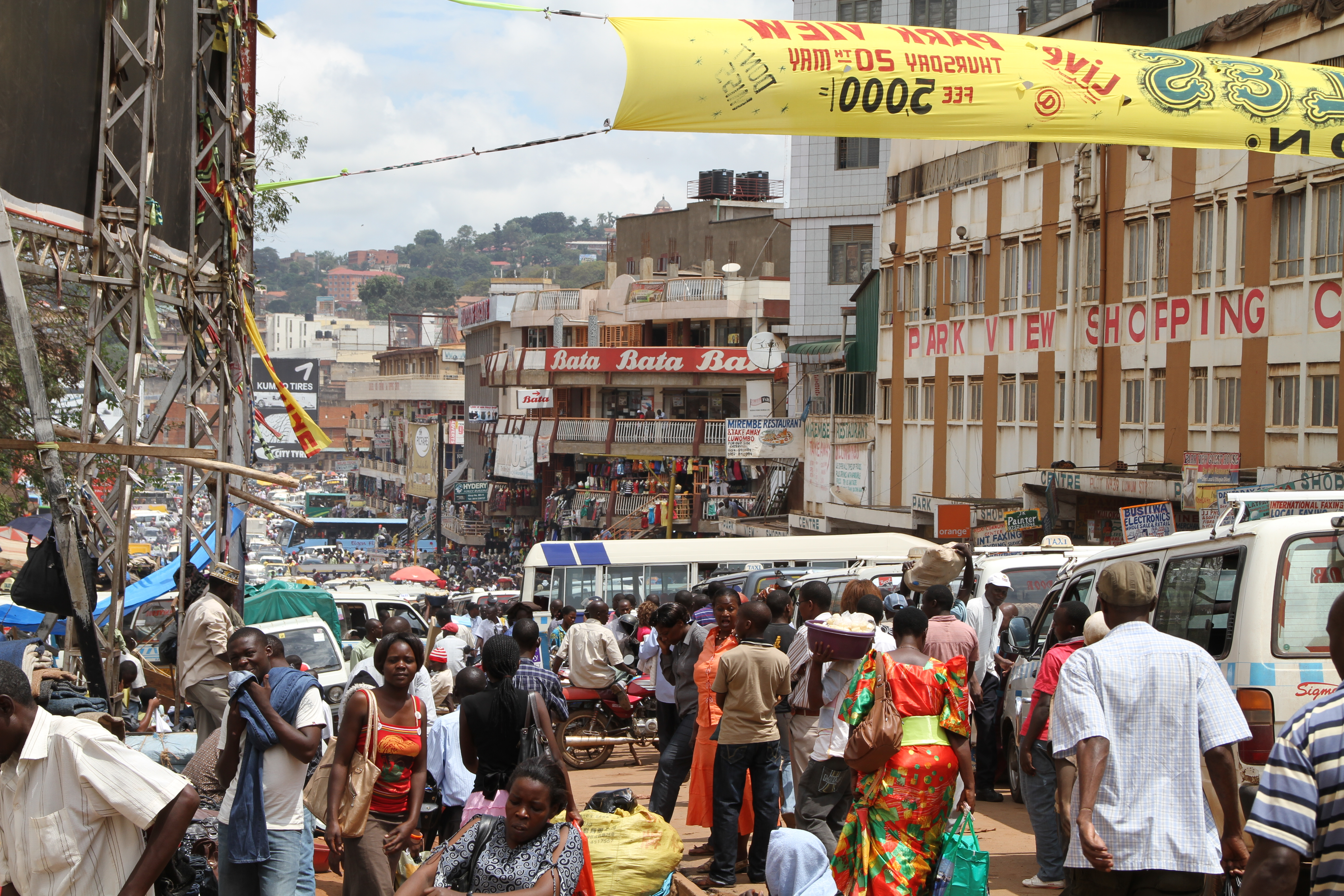 Downtown Uganda, taxi park overlook.